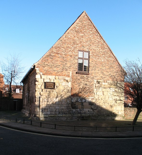 St Andrews, St Andrewgate A modest little church with an interesting history. Built from a mix of medieval brick and magnesian limestone, most of what stands is probably 15th century. The church was redundant by the late 16th century, and in 1736 there was a stable at one end and a brothel at the other, whilst in the mid 19th century it was being used as a school. Now an evangelical church.